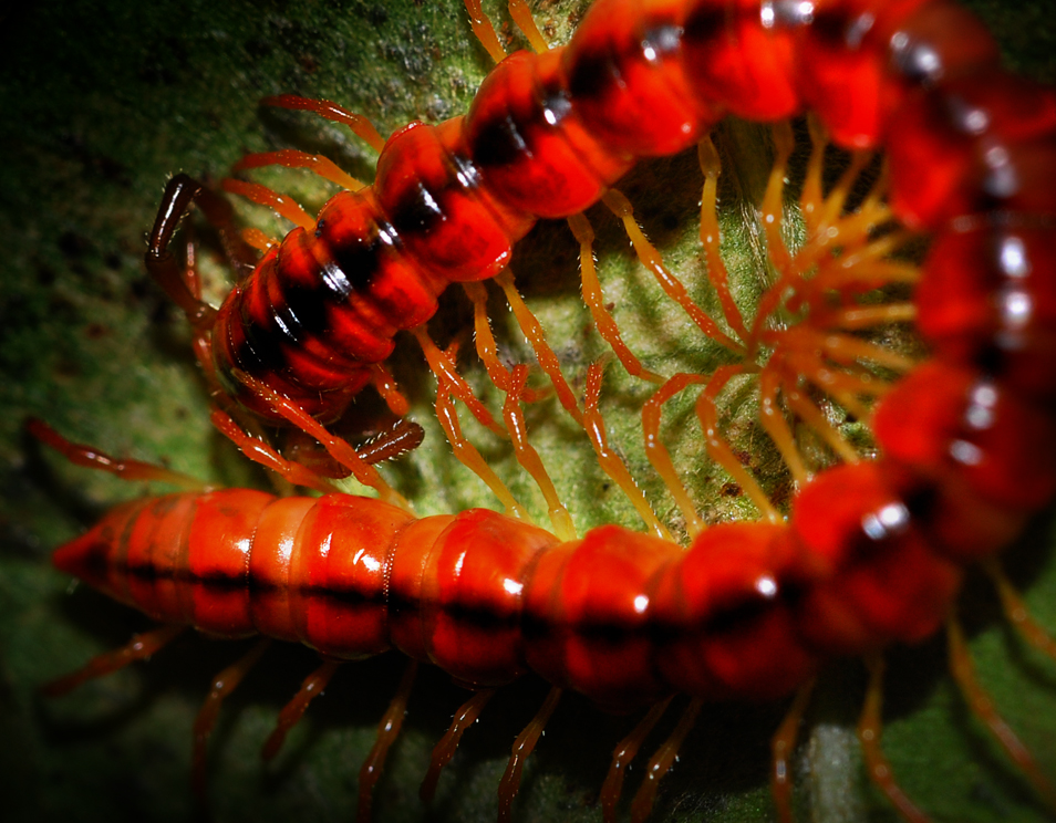 A millipede of the order Polydesmida. Note two pair of legs per body segment: centipedes have only one pair per segment.